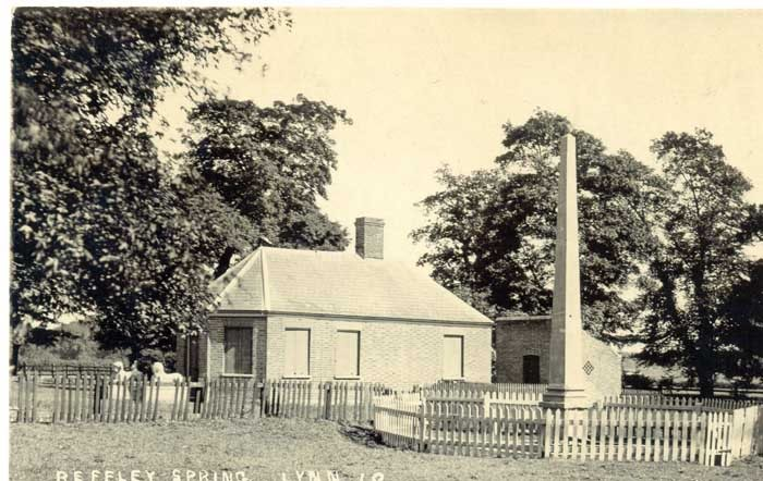 Reffley temple, Kings Lynn